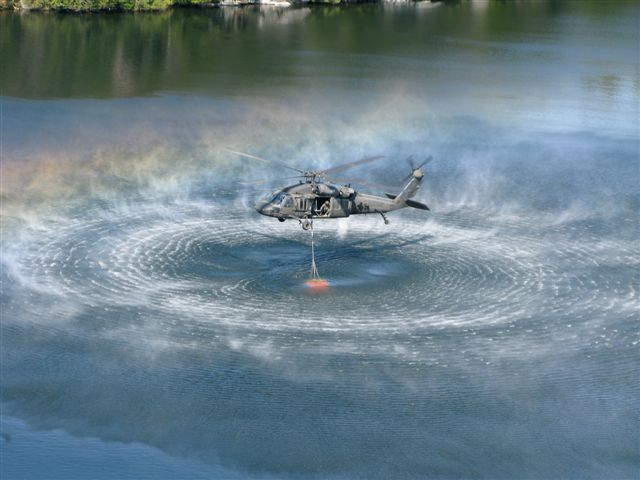 A New York Army National Guard Blackhawk helicopter takes on a 660 gallon load of water as it prepares to attack the Wildfires at Minnewaska State Park Preserve, Ulster County